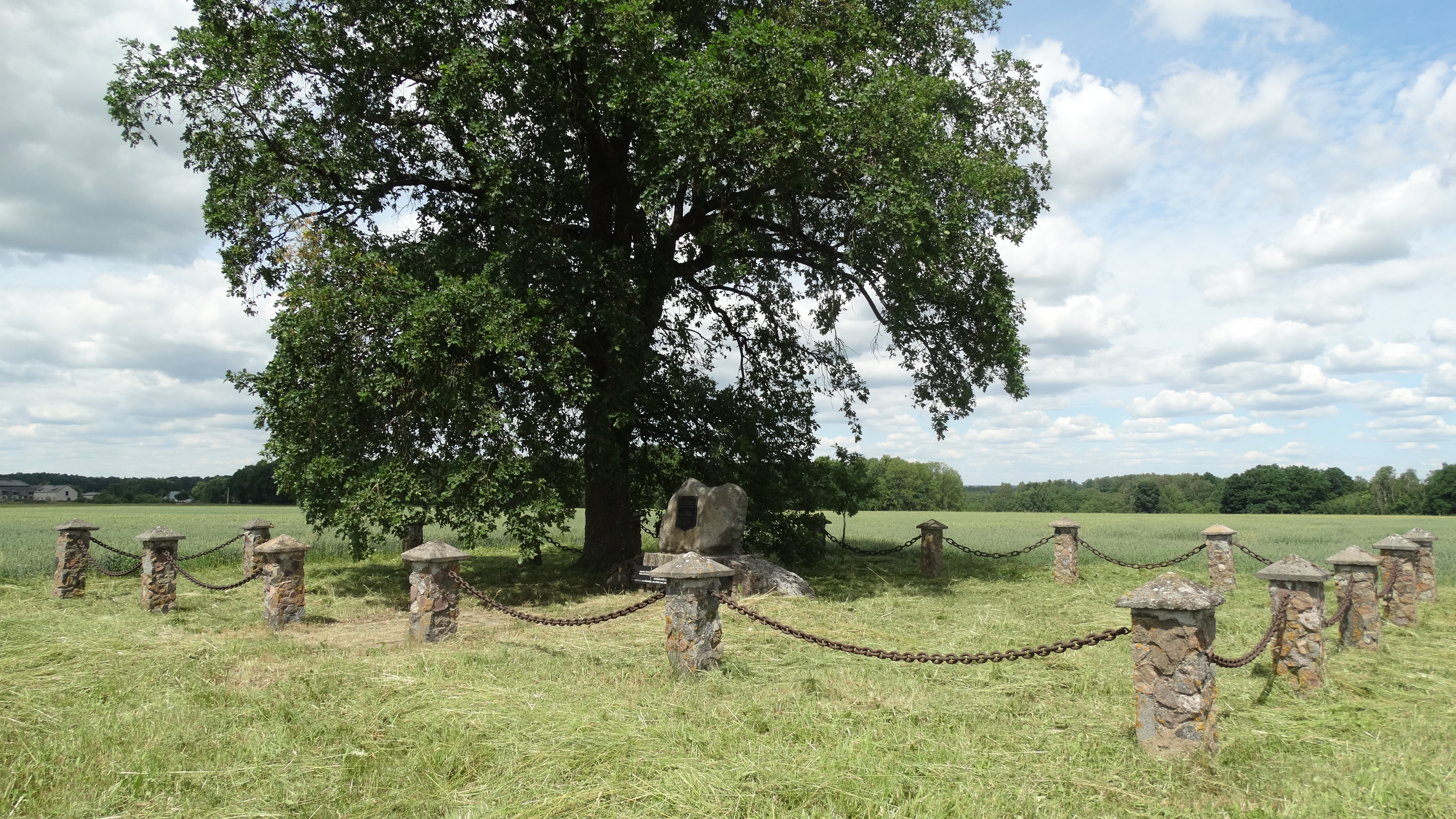 Birthplace of Petras Bartkus, Pakapurnis, Raseiniai, Lithuania